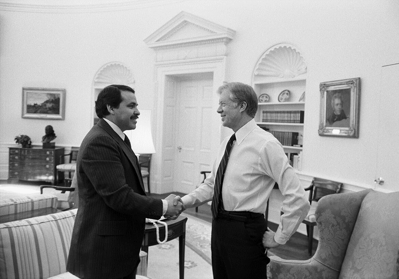 President Jimmy Carter expresses his appreciation to author for his key role in the exfiltration operation. Agent Antonio J. Mendez is congratulated by President Jimmy Carter on the success of Operation Argo.